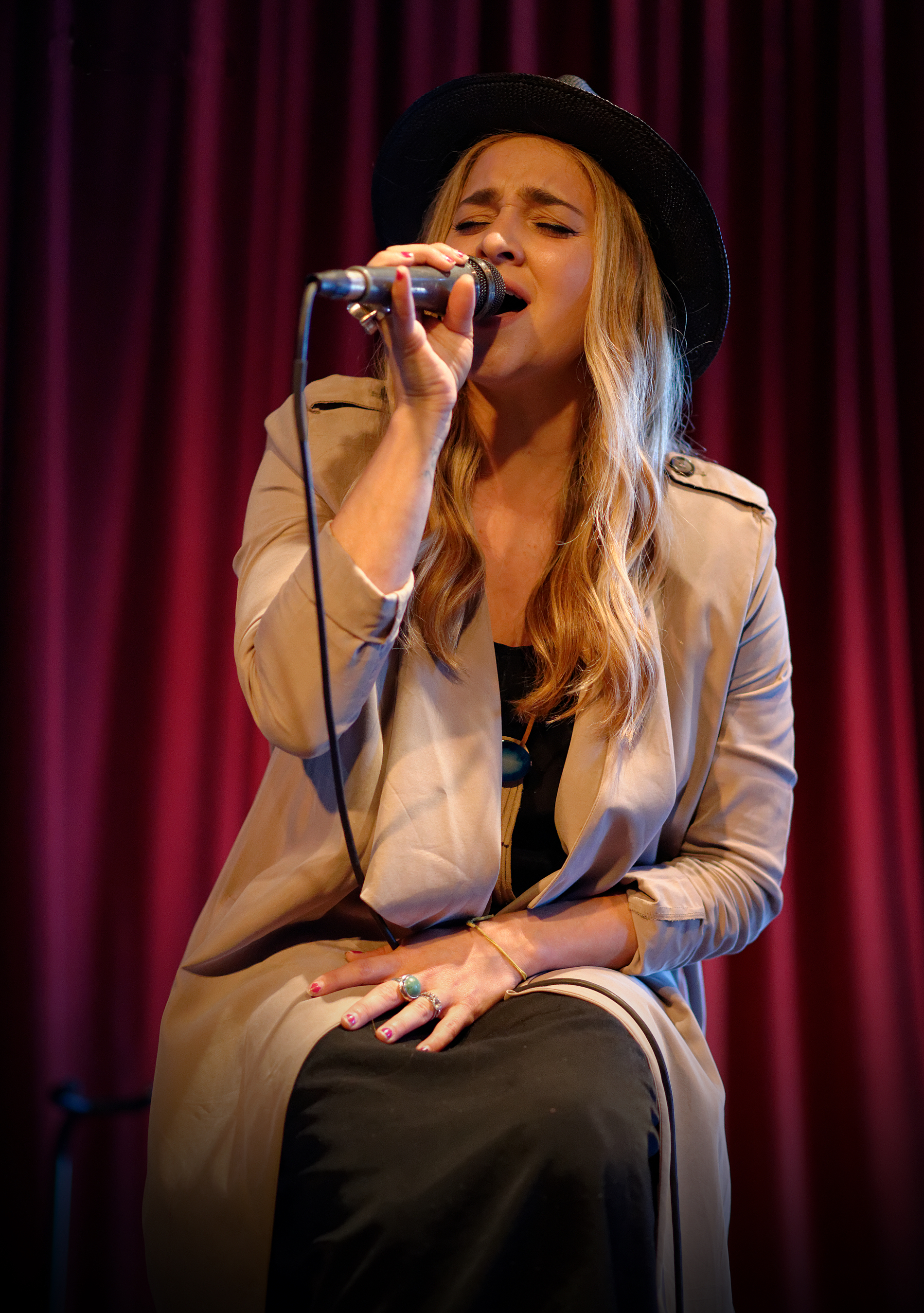 Alisan Porter at Room 5 Lounge